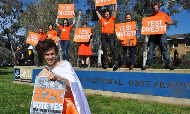 In September 2014, more than 82% of ANU students voted for divestment